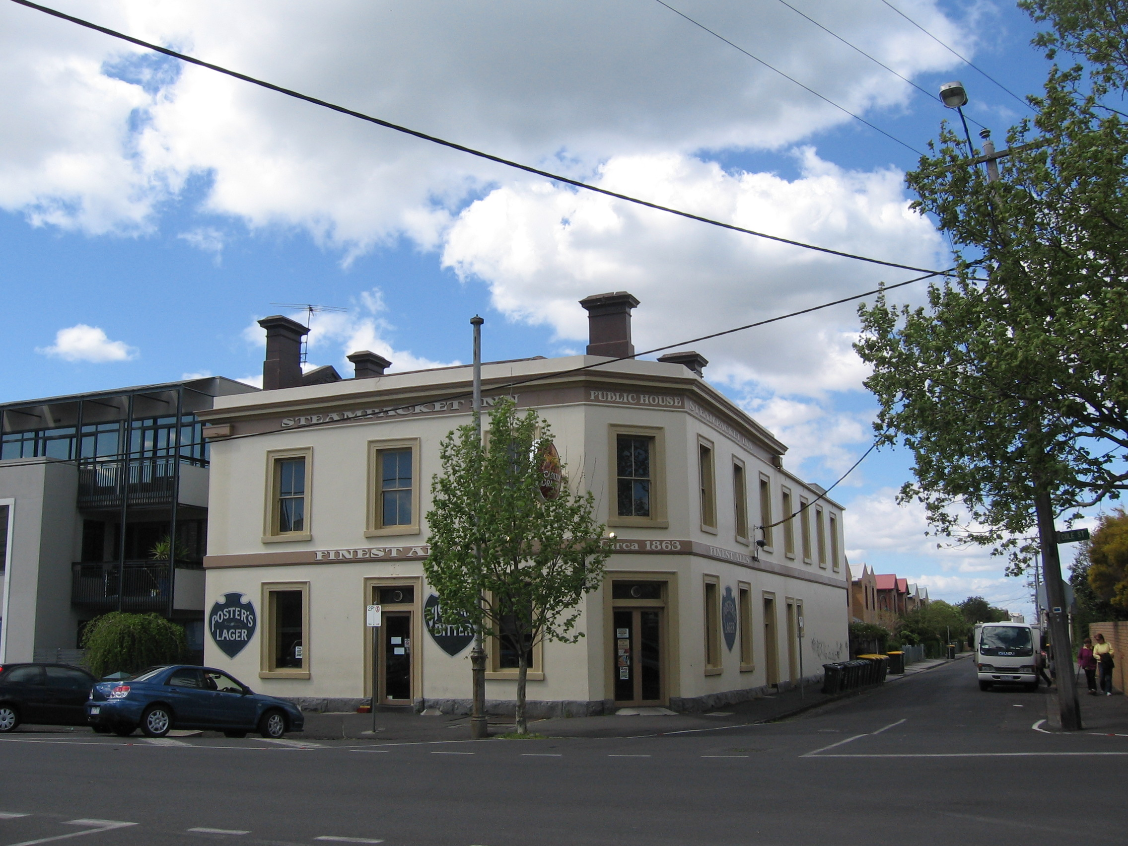 The Steampacket Inn at Williamstown, Victoria